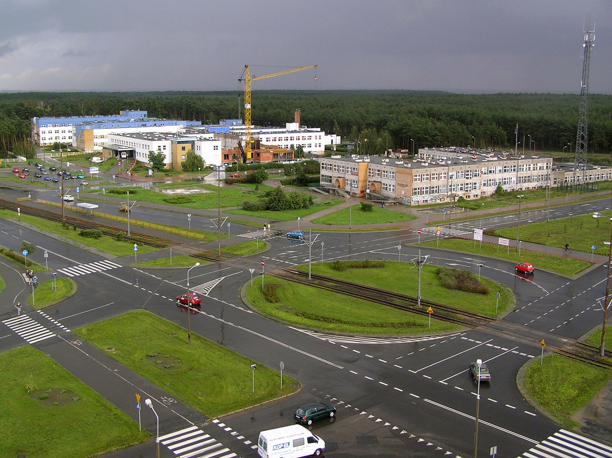 Toruń, Skarpa district, intersection of Konstytucji 3 Maja and Ligi Polskiej Str. and children's hospital